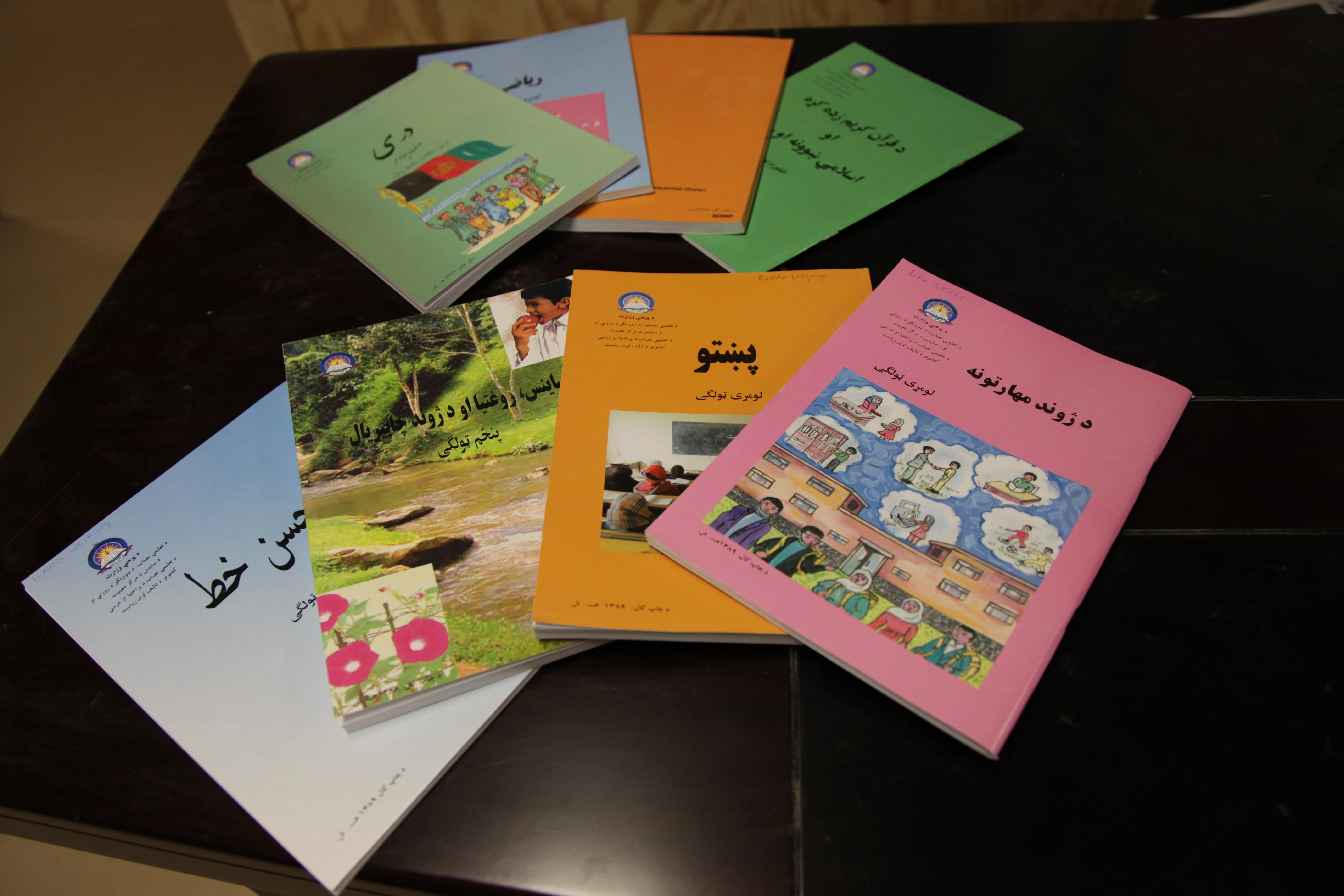 These eight books are samples of more than 40,000 textbooks written in Pashtu distributed to Afghan school children in five districts in Paktika province by the provincial education department with the help of the development team from Task Force Currahee, 4th Brigade Combat Team, 101st Airborne Division April 8-25. (Photo ID: 399083)